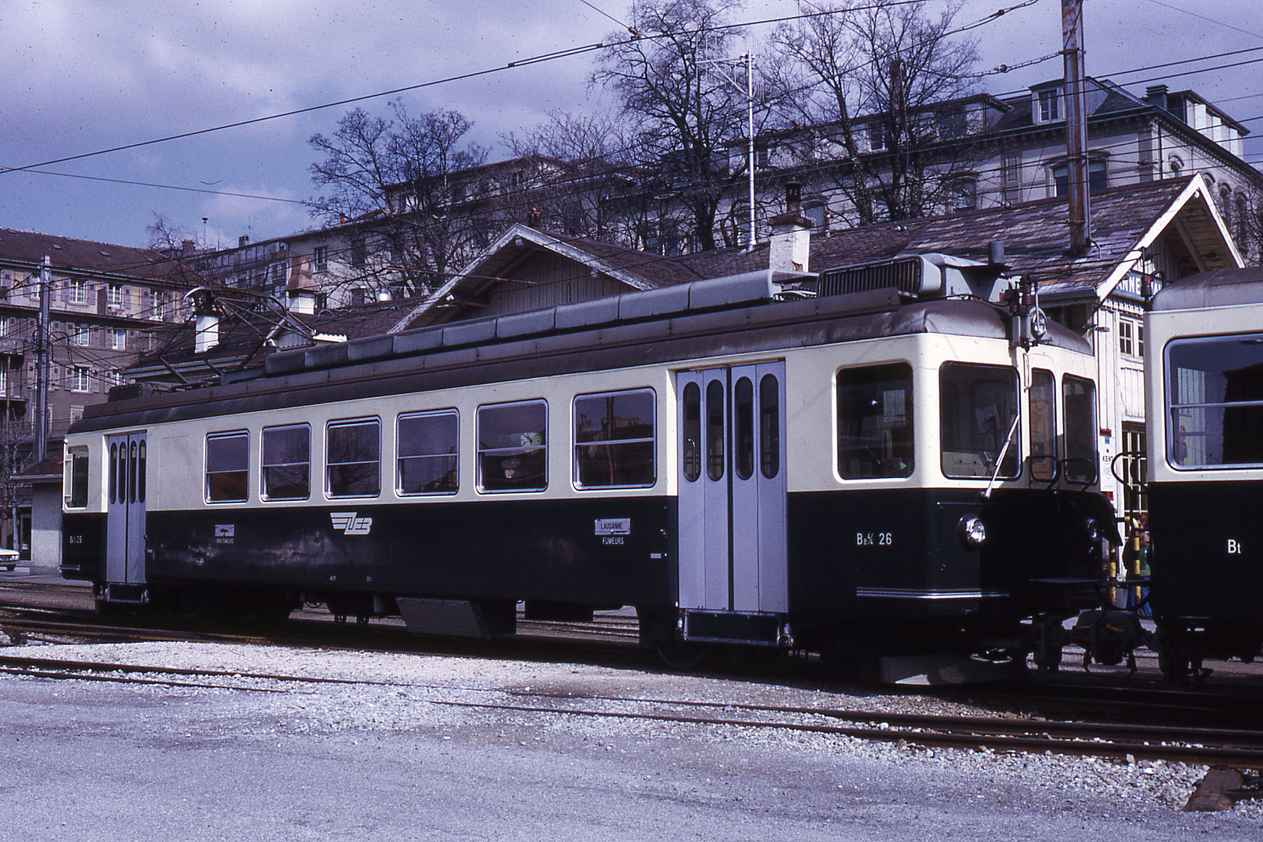 Be 4/4 26 at the old railway station of Lausanne-Chauderon in 1975.